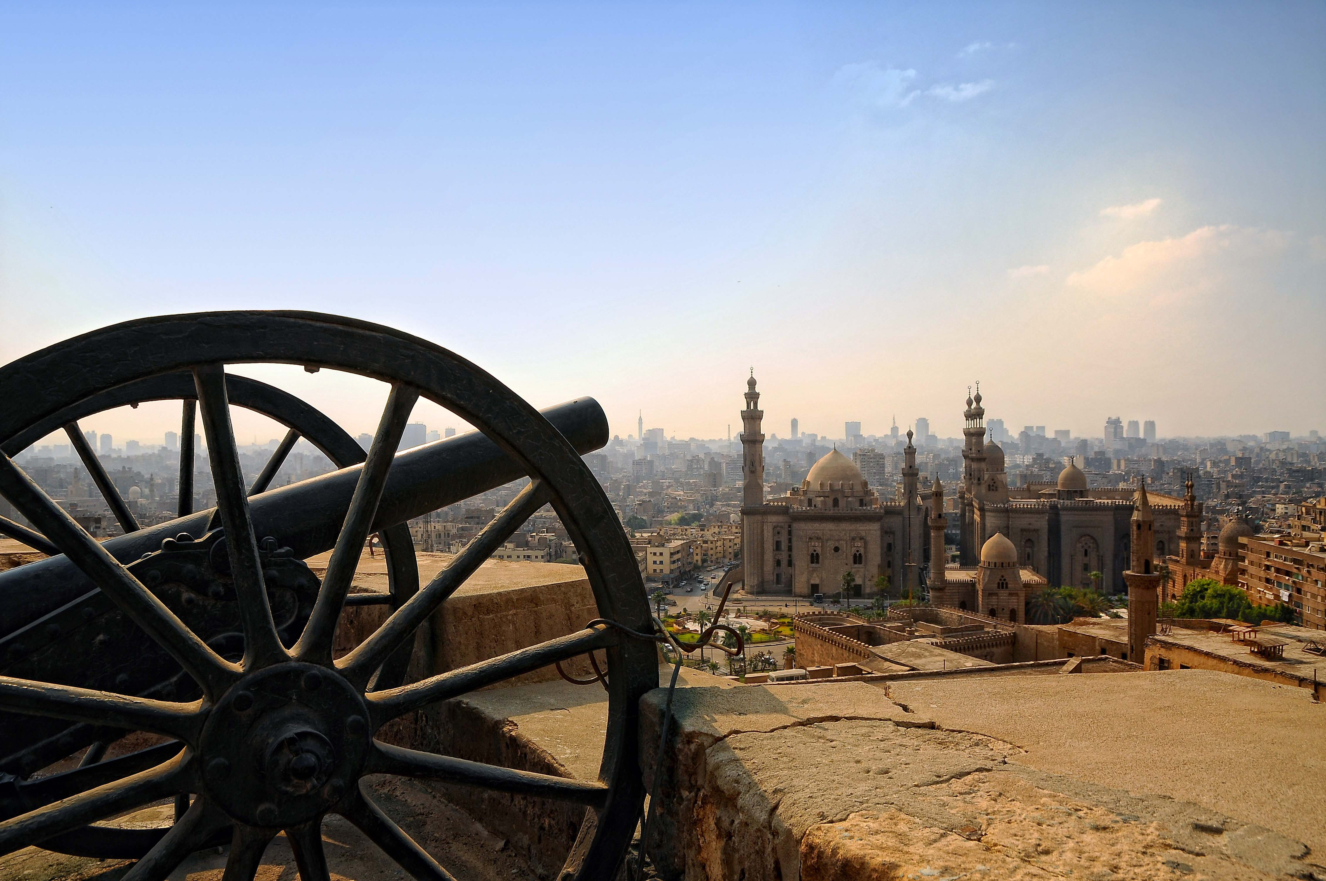 View of Al-Rifa'i Mosque (right) and Mosque-Madrassa of Sultan Hassan (left) from Cairo Citadel, Egypt